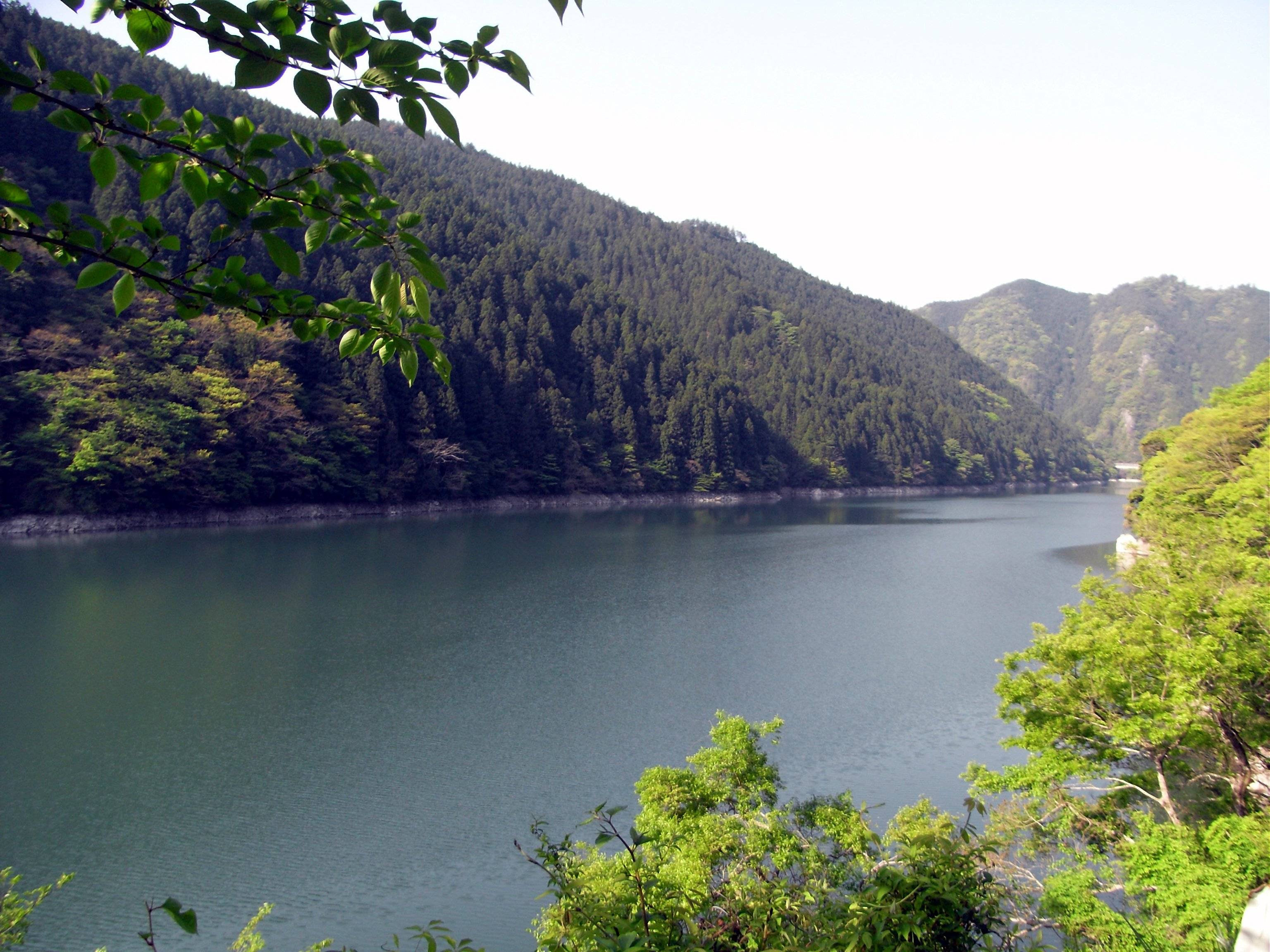 Nagayasuguchi Reservoir(Nakagawa river/Tokushima Pref./Japan)